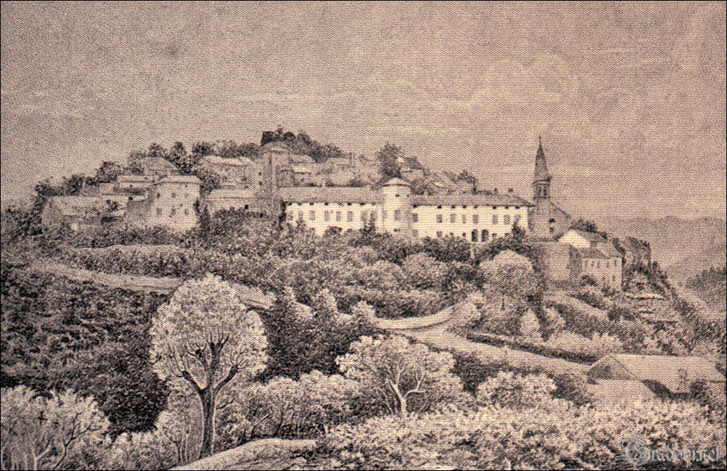 Laško